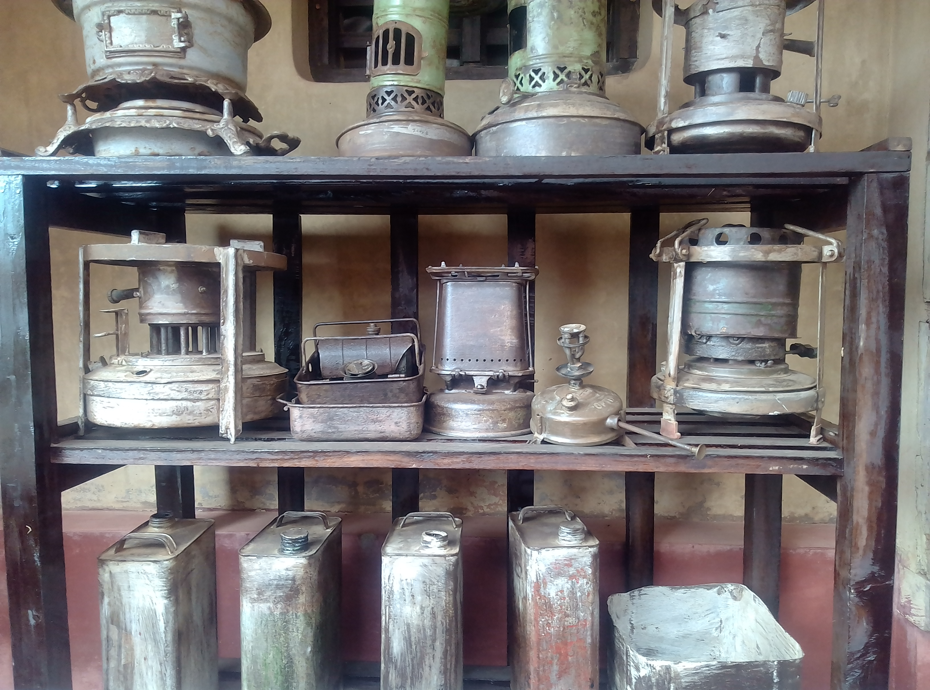 Kerosene stoves were used for cooking extensively in past in India.